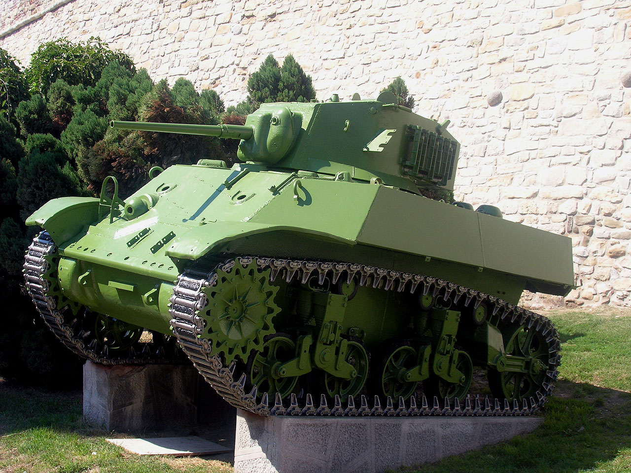 M3A3 Stuart, Belgrade Military Museum, Serbia. Author of the picture is user Marko M.